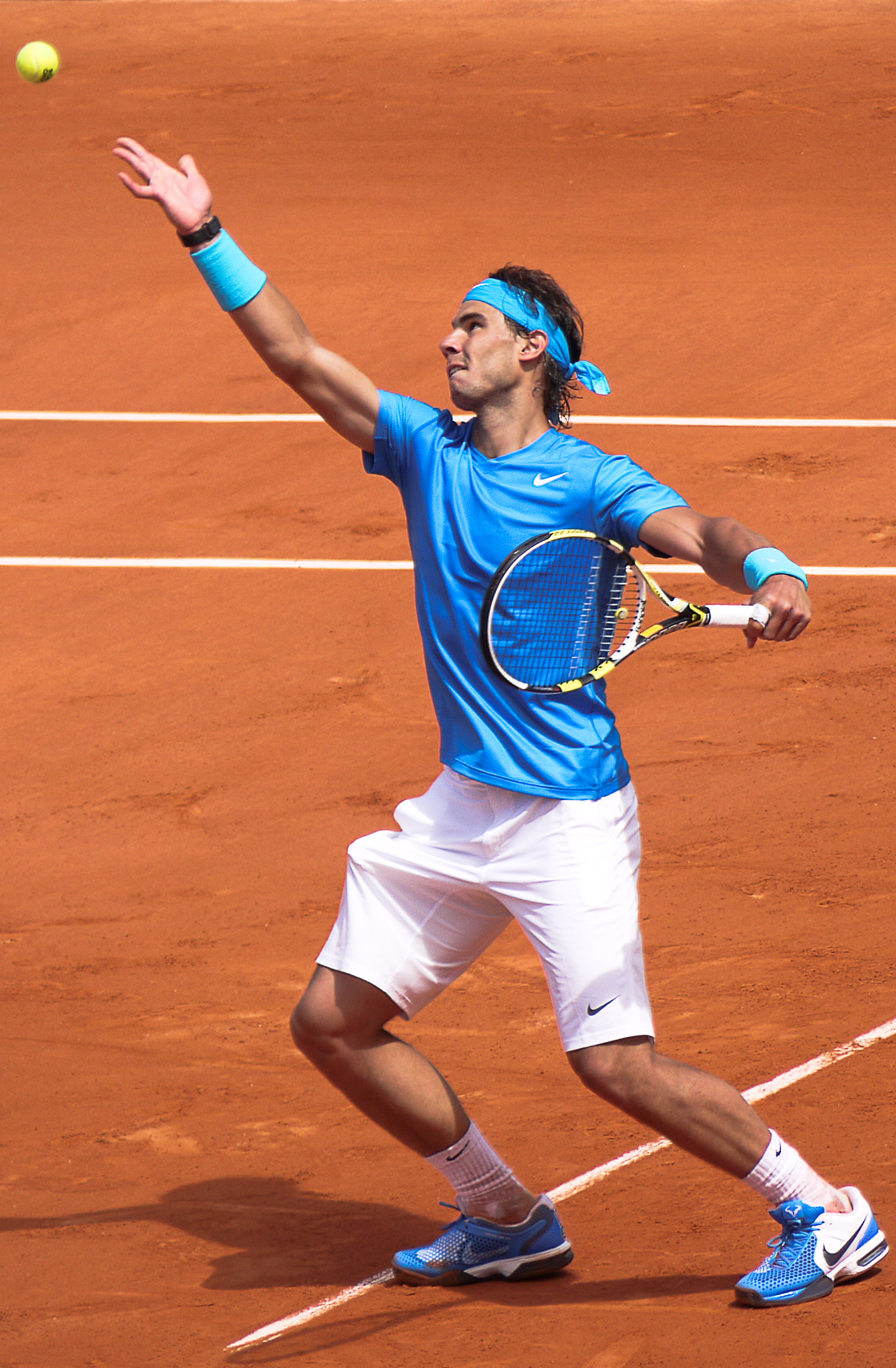 This file is originally uploaded by Good twins on wikimedia commons. This is the edited version of the photo and I was the one who edit it. No Copyright Infringement Intended